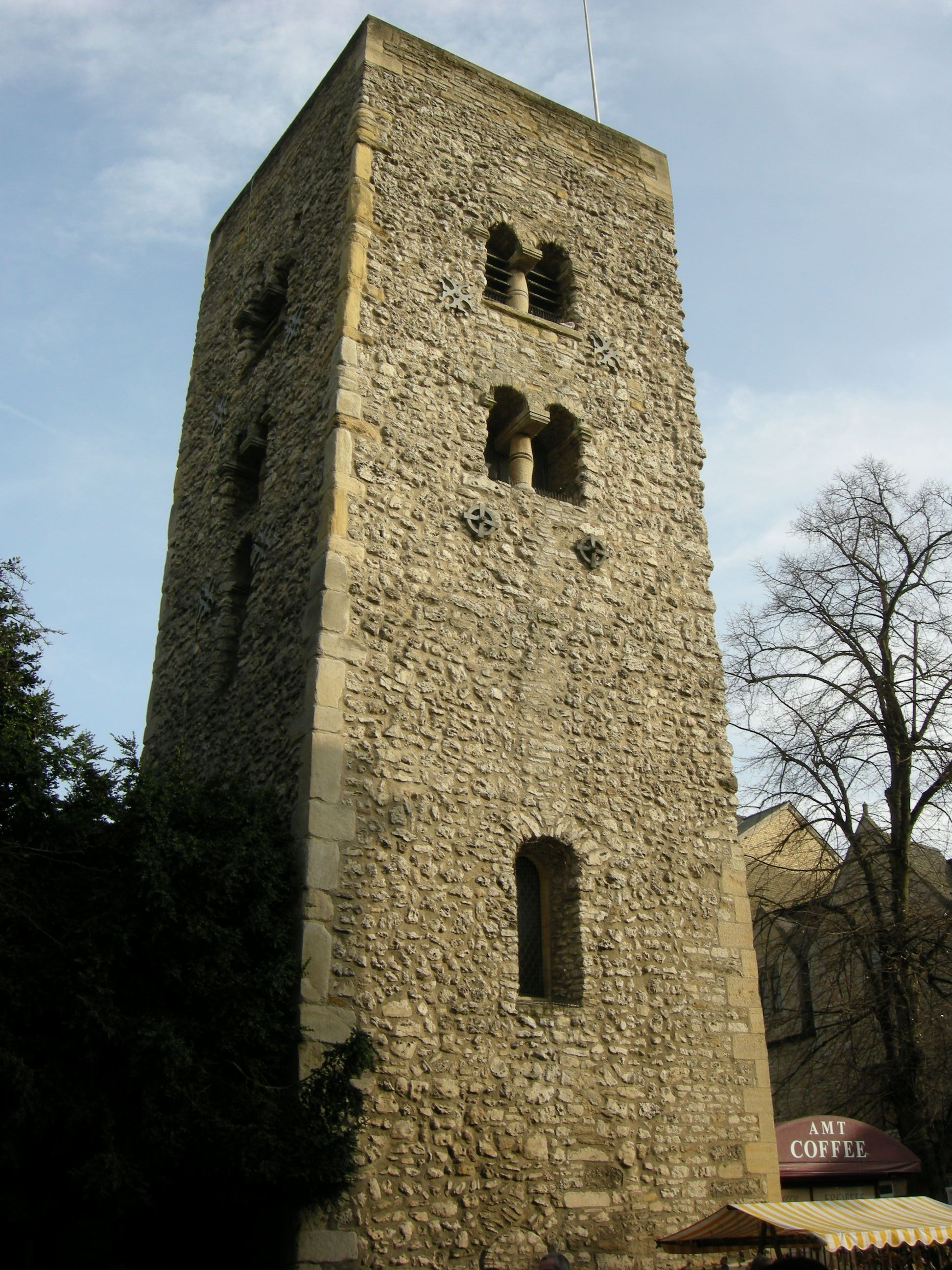 11th-century Anglo-Saxon west tower of the Church of England parish church of St Michael at the North Gate, Oxford